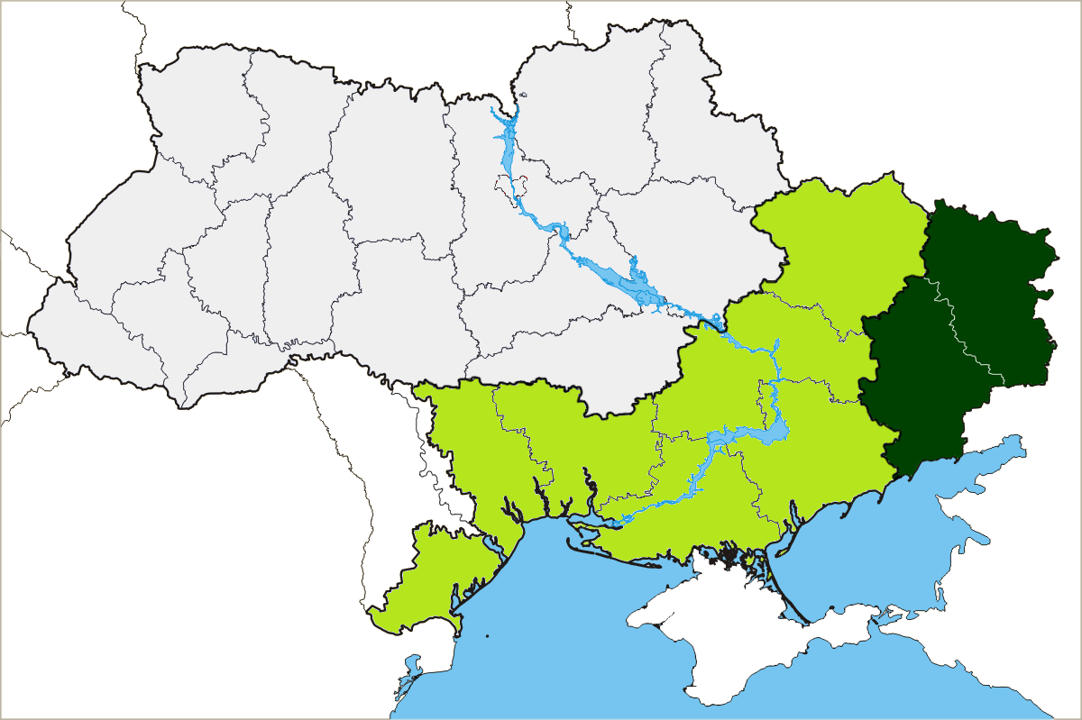 Federal States of New Russia